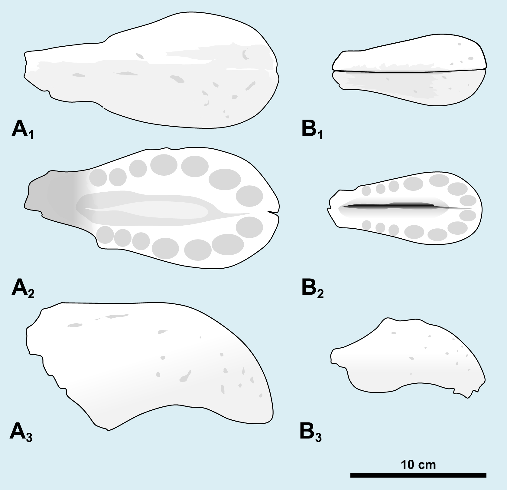 Comparison between the Cristatusaurus premaxillae specimens MNHN GDF 365 (A), and 366 (B), showing the differences in development between the two. The younger specimen is smaller and has the suture between the two snout bones still visible. Based on the description by Kellner and Campos (1996)[1]